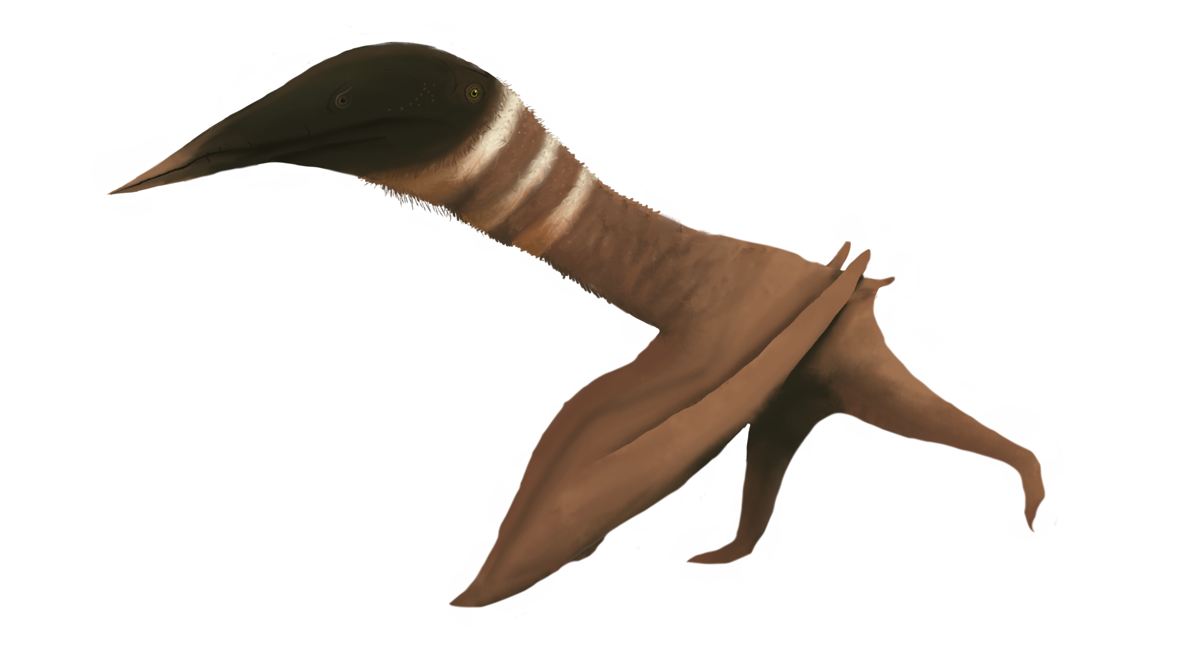 A reconstruction of Mistralazhdarcho.